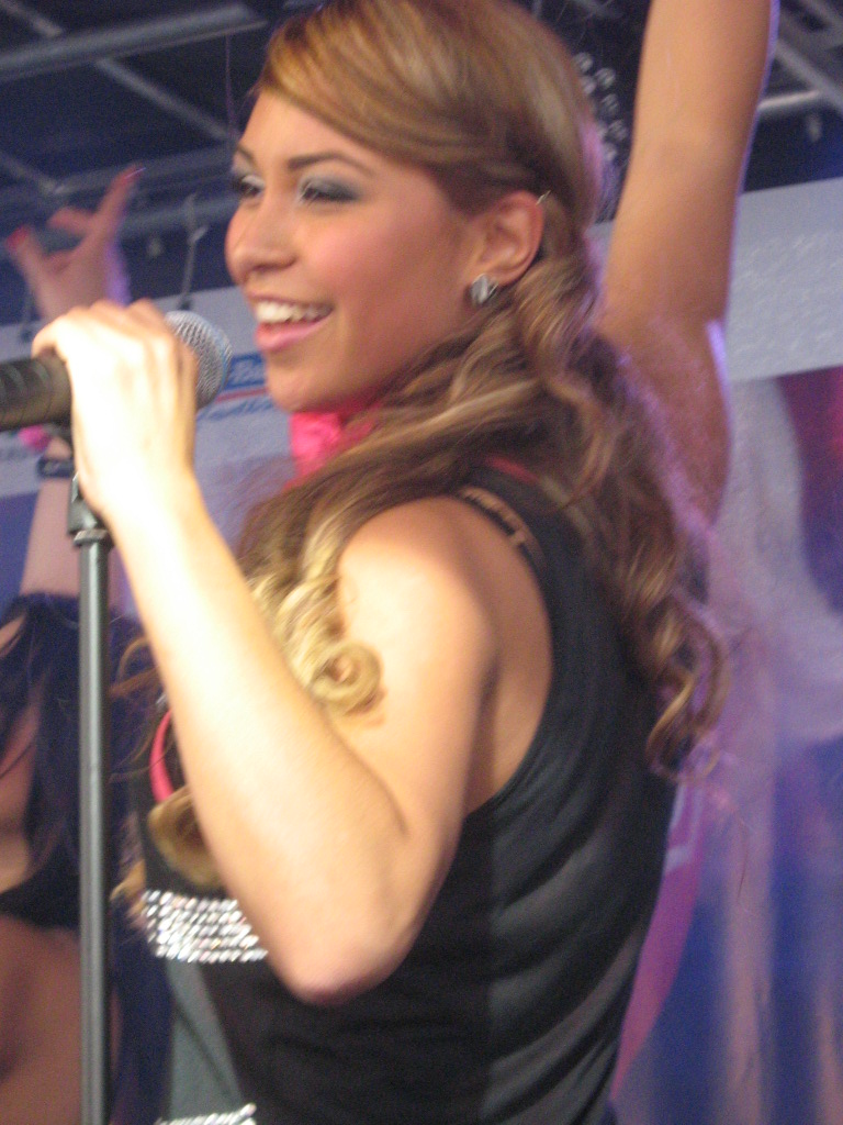 Ronja Hilbig